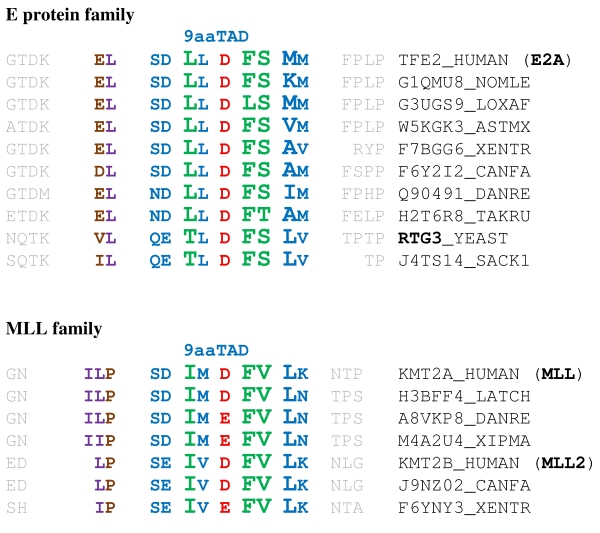 alignment